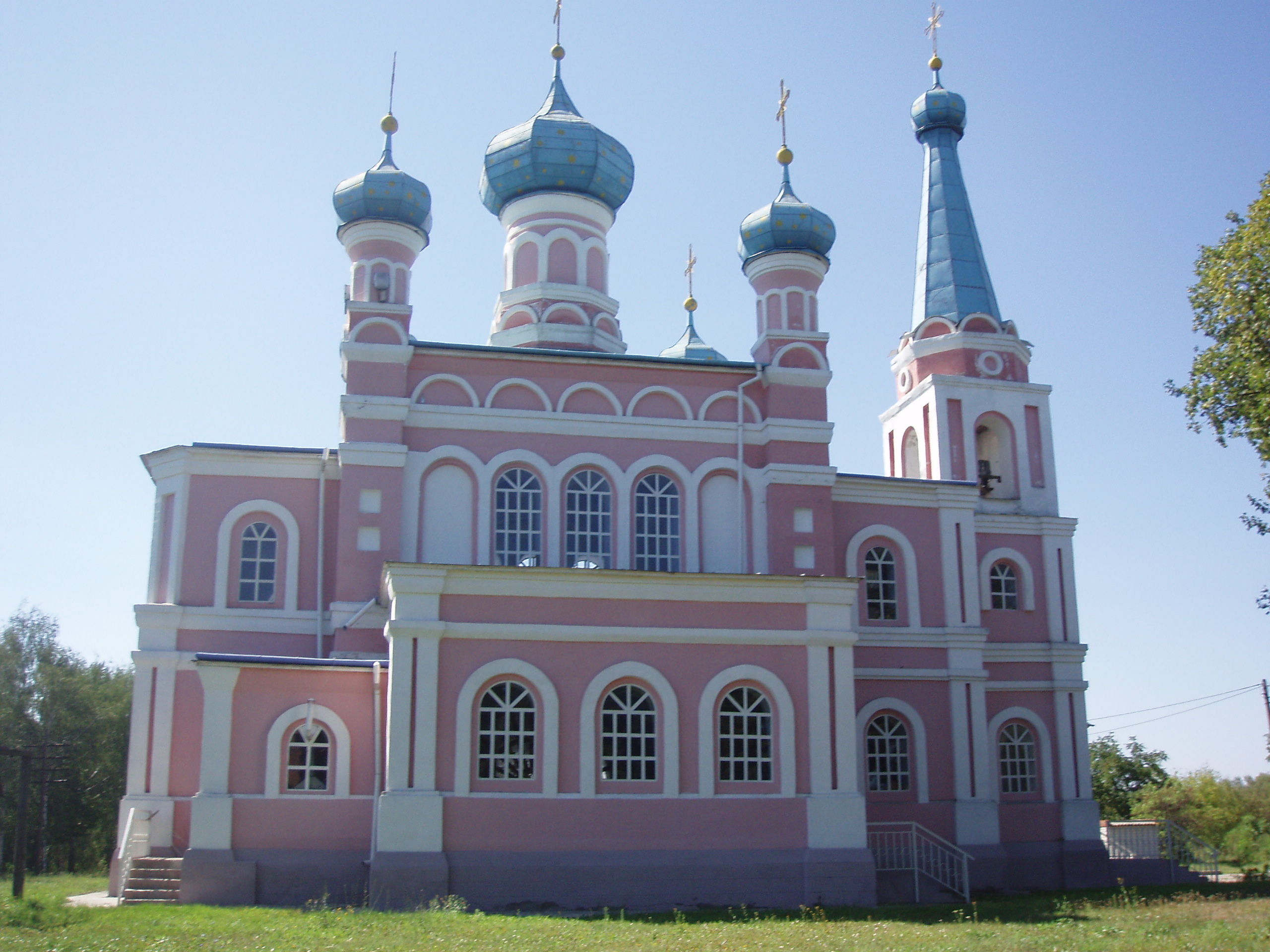 Свято-Георгиевская церковь (построена в 1998 году), Гребёнка (райцентр Полтавской области), август 2008 года